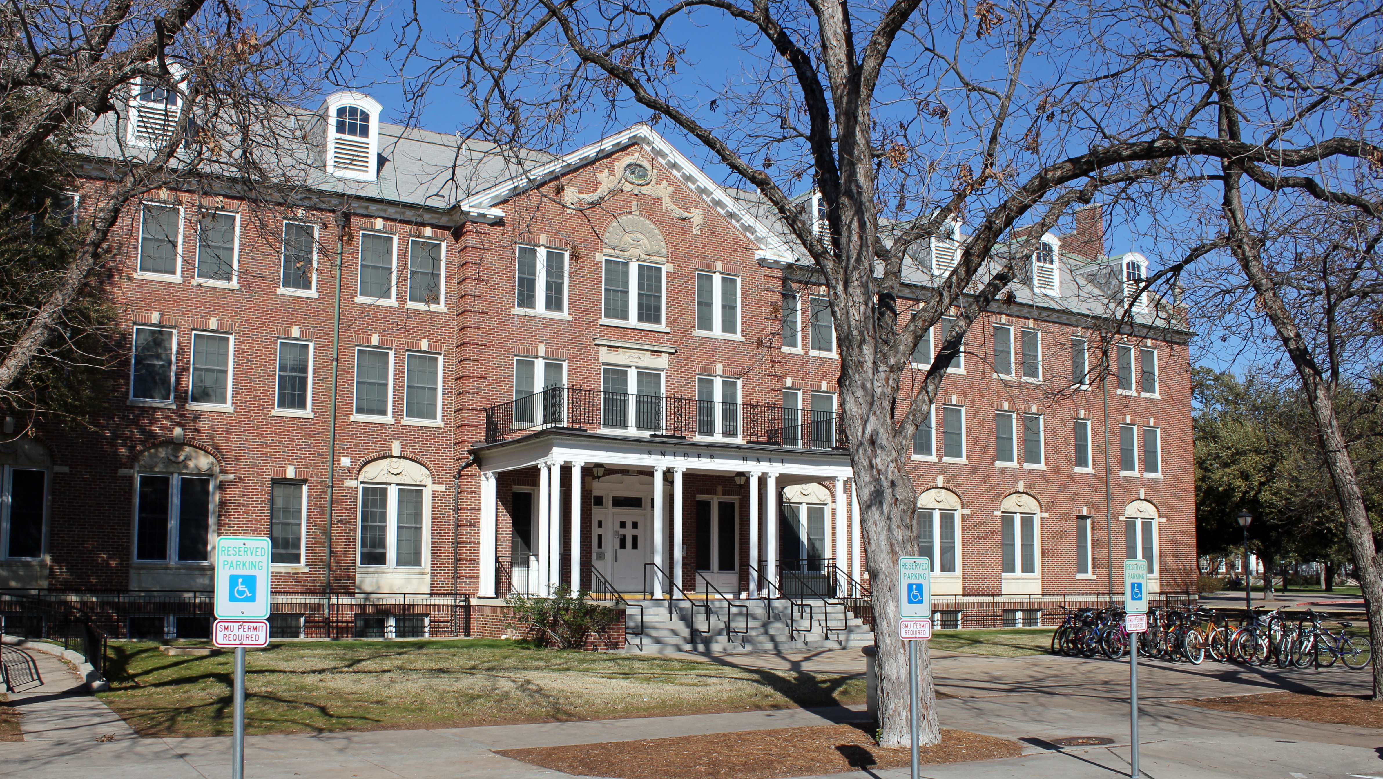 Snider Hall on the Southern Methodist University Campus. The building is listed on the National Register of Historic Places. Its address is 3305 Dyer Street in Dallas, Texas.